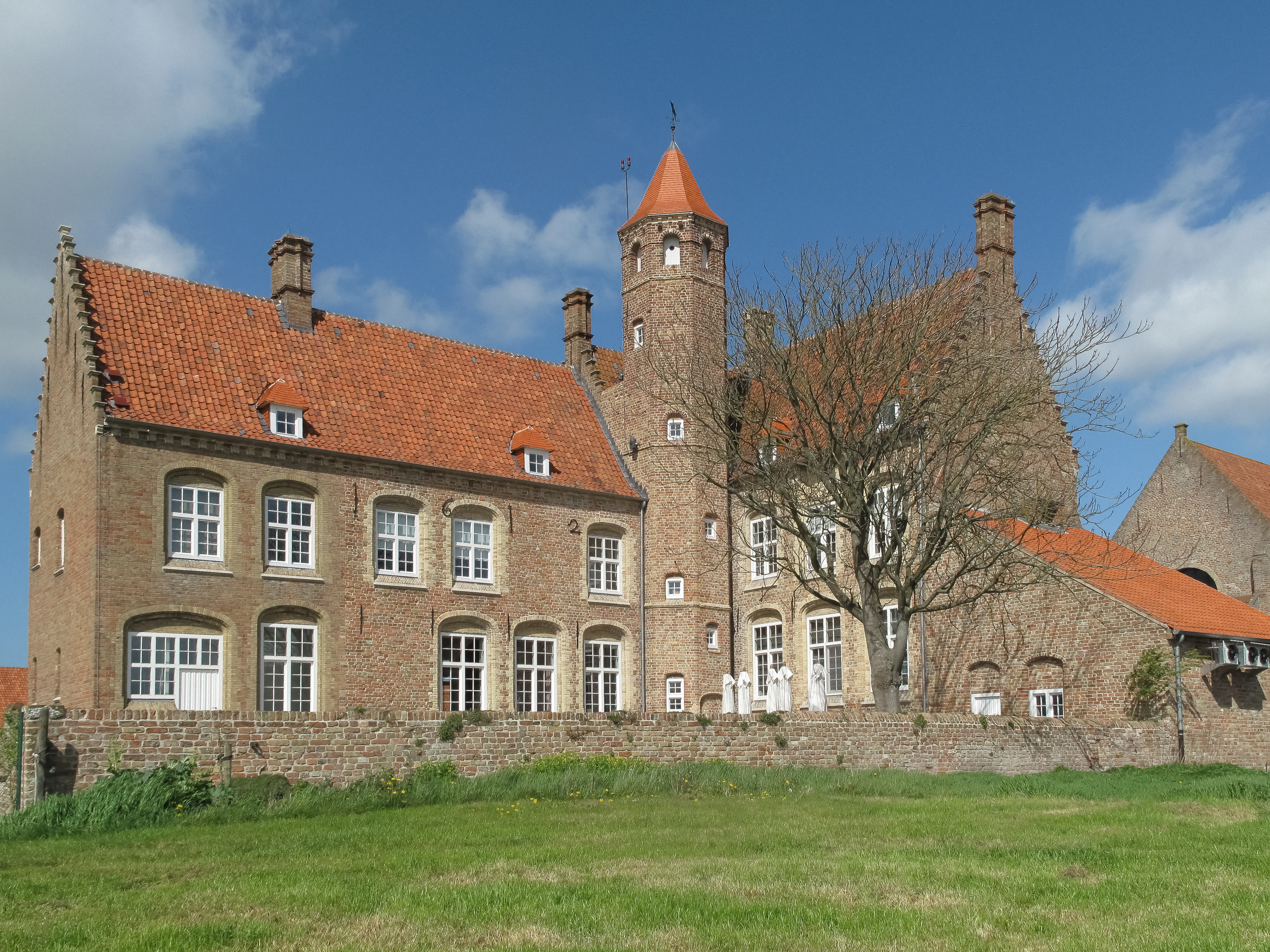 Ten Bogaerde, monastic grange